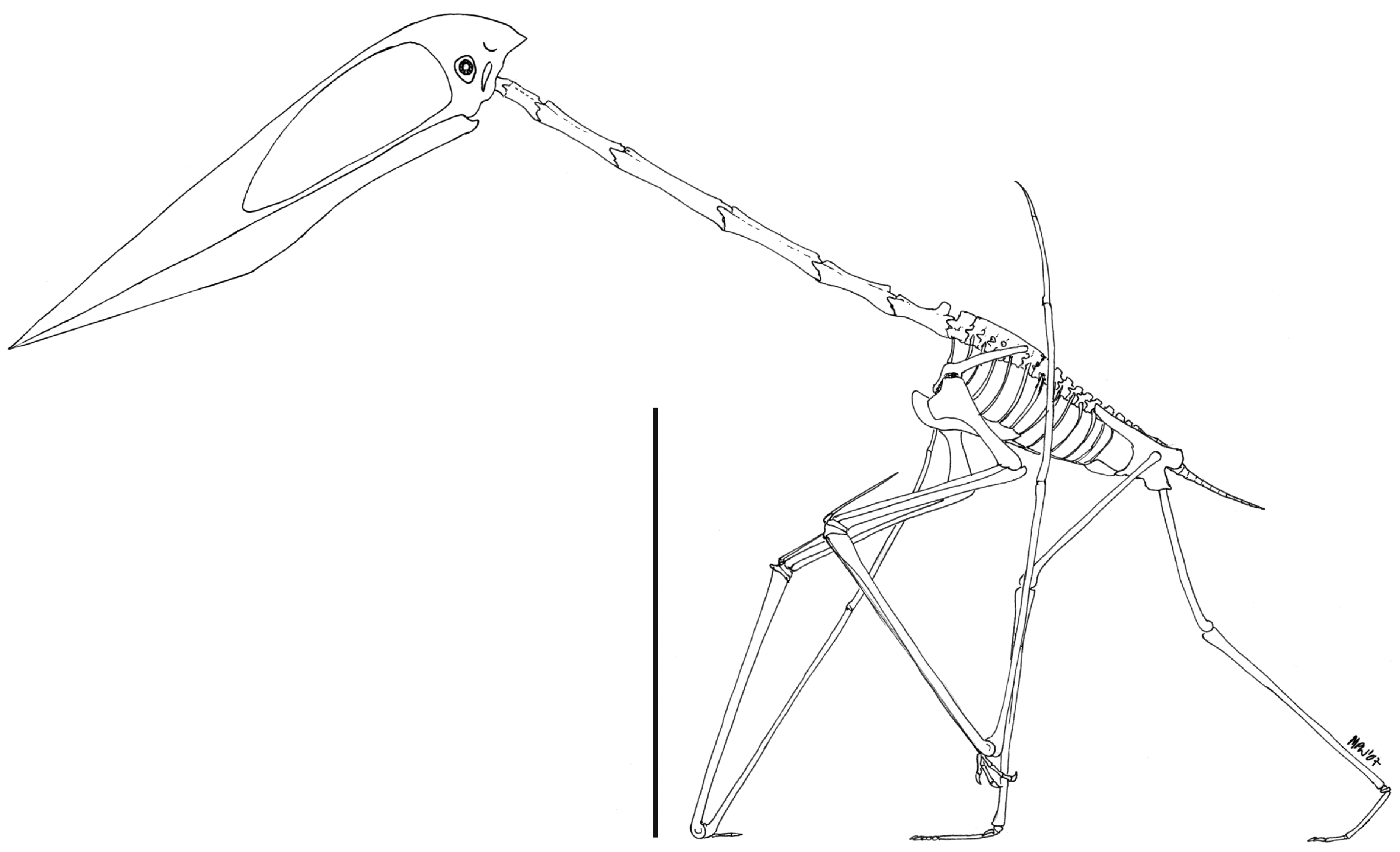 Reconstructed skeleton of Zhejiangopterus linhaiensis. Scale bar represents 500 mm.